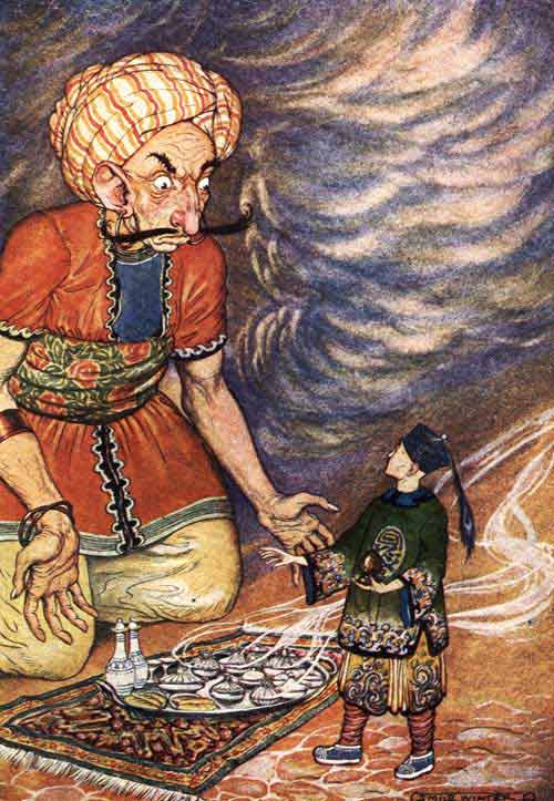 Title: The Arabian Nights Entertainments Author: Anonymous Illustrator: Milo Winter The genie immediately returned with a tray bearing dishes of the most delicious viands. Page 168.